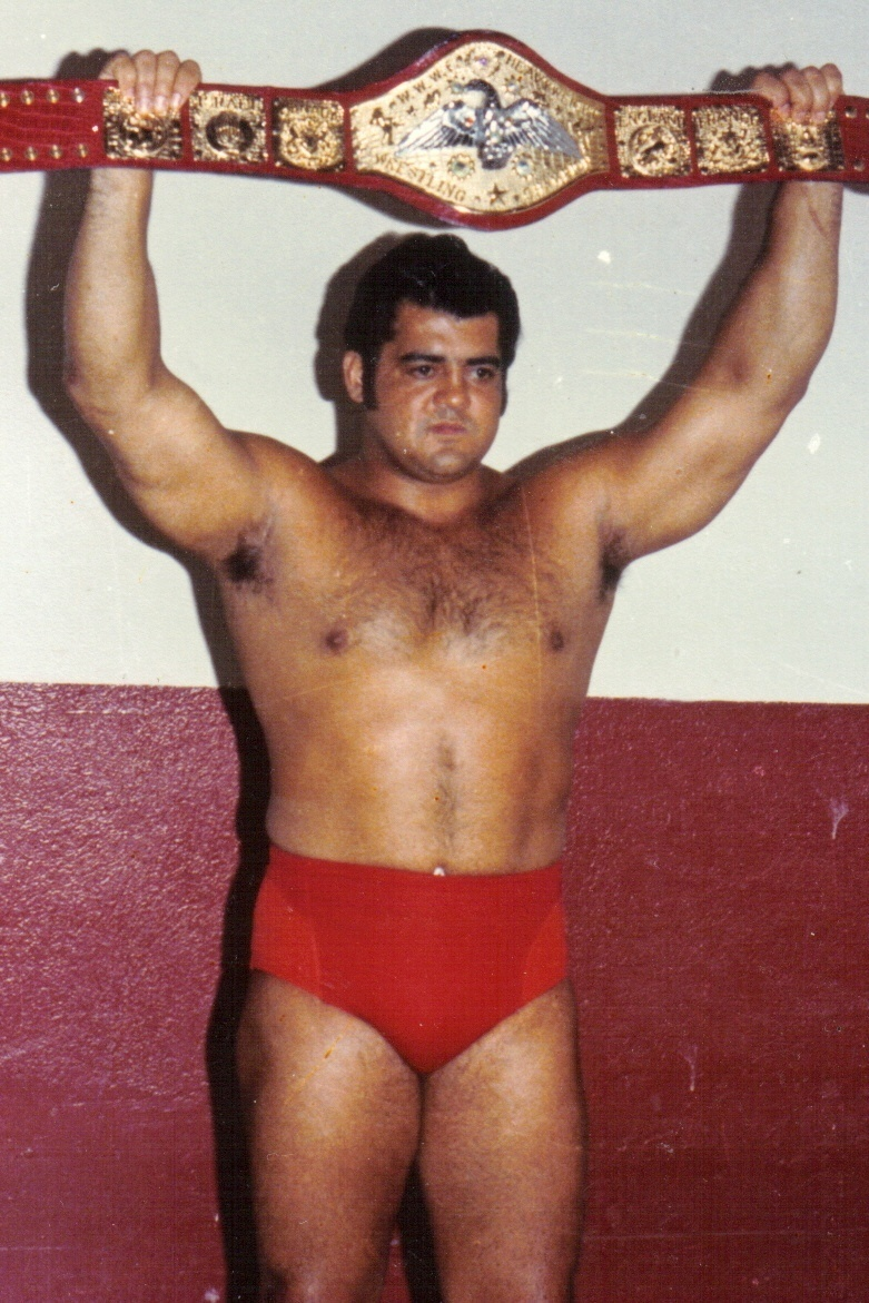 Promo photo of professional wrestler Pedro Morales as the WWWF (WWE) Champion.